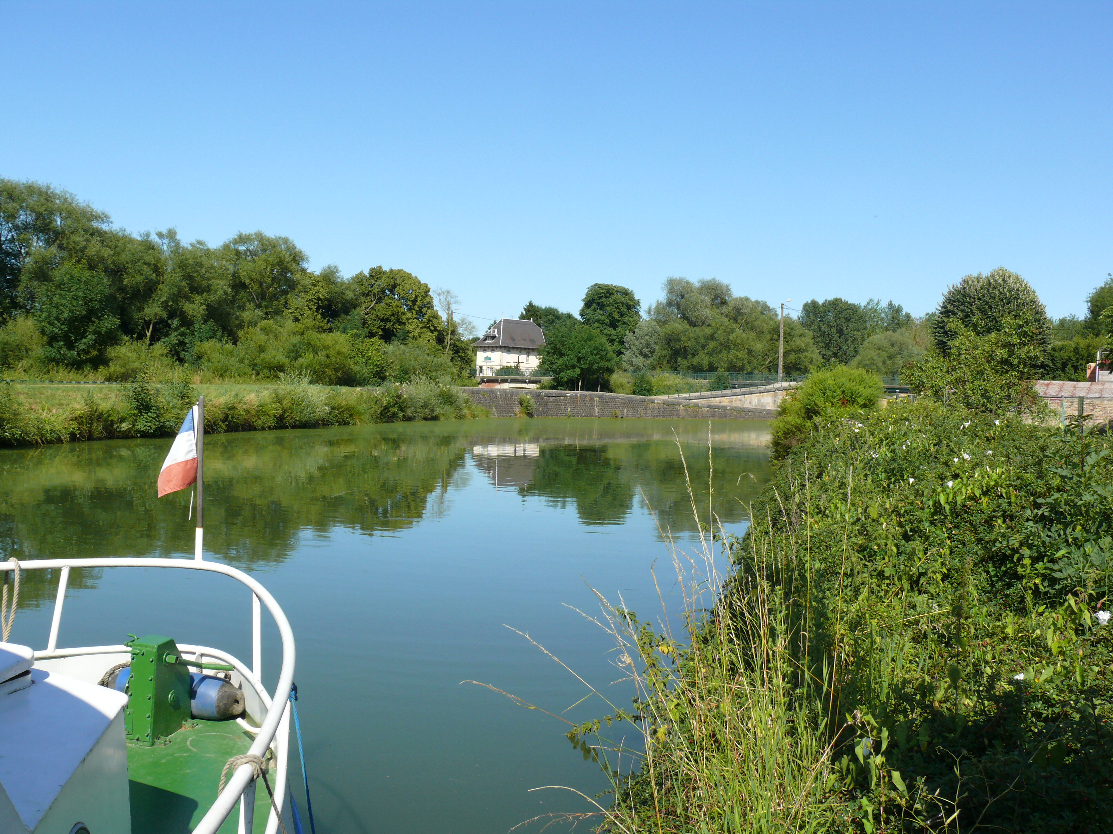 Canal des Ardennes in Attigny (dept. Ardennes, région: Champagne-Ardenne).